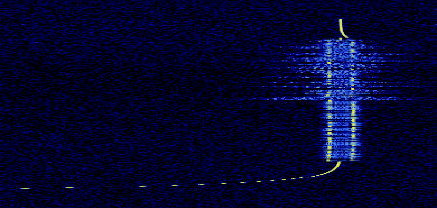 This image displays the "waterfall" image of the Fox-1B transponder mode beacon. Starting from the bottom of the image moving up, visible are the characteristic "fox tail" emission of transmitter initiating, followed by DUV ("data under voice" telemetry"), then followed by the voice announcement "Hi, this is RadFXSat amateur radio satellite Fox-1B."